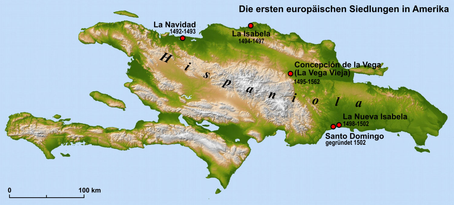 Map of the first Europian settlement in America